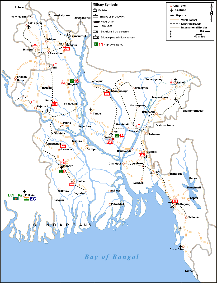 Disposition of Pakistan army units in the aftermath of Operation Searchlight.